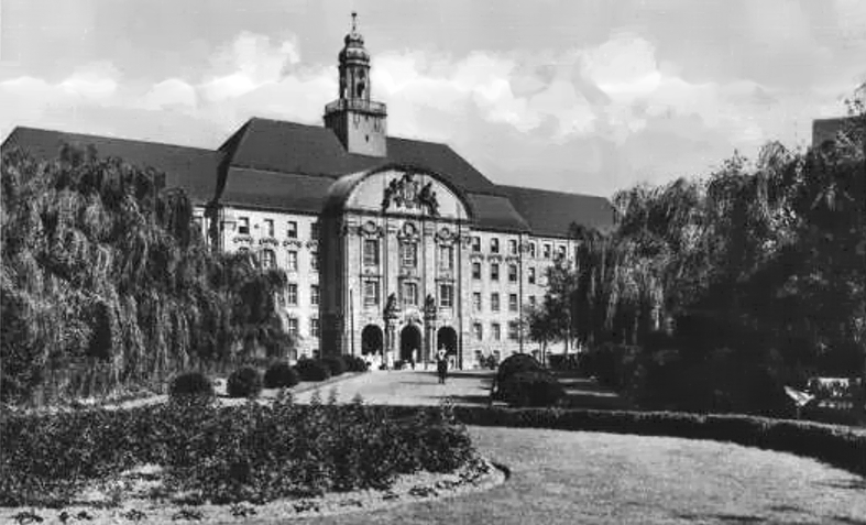 Courthouse of the city of Essen, built from 1908-1913, destroyed in November 1945